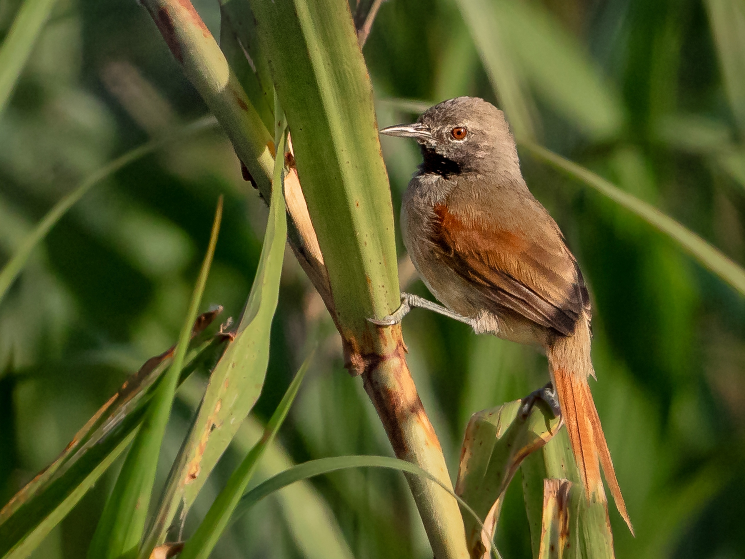 White-bellied Spinetail; Marchantaria Island, Iranduba, Amazonas, Brazil